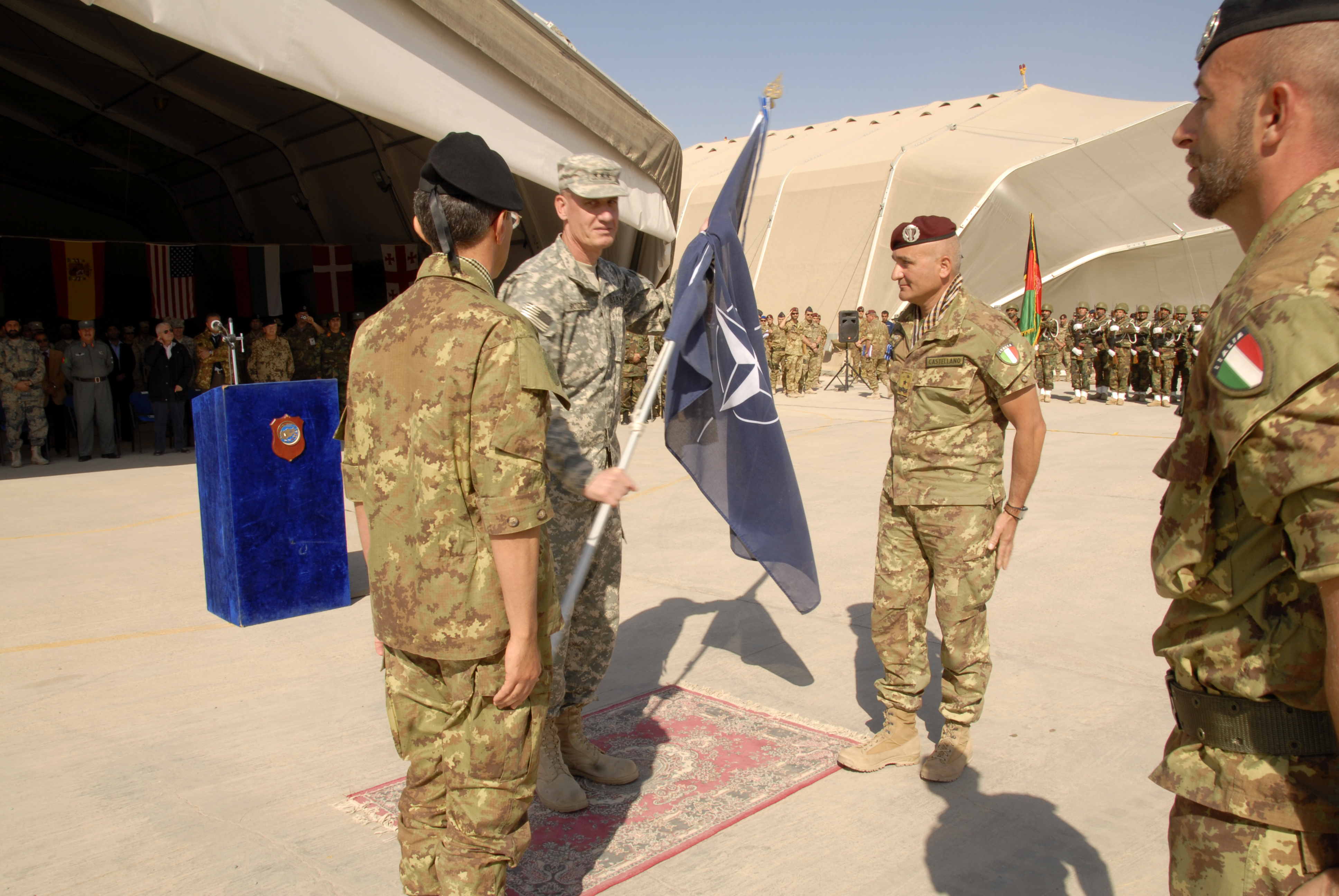 Lt. General David M. Rodriguez, IJC Commander, passes the NATO flag during an Italian change of command in Herat, Afghanistan.